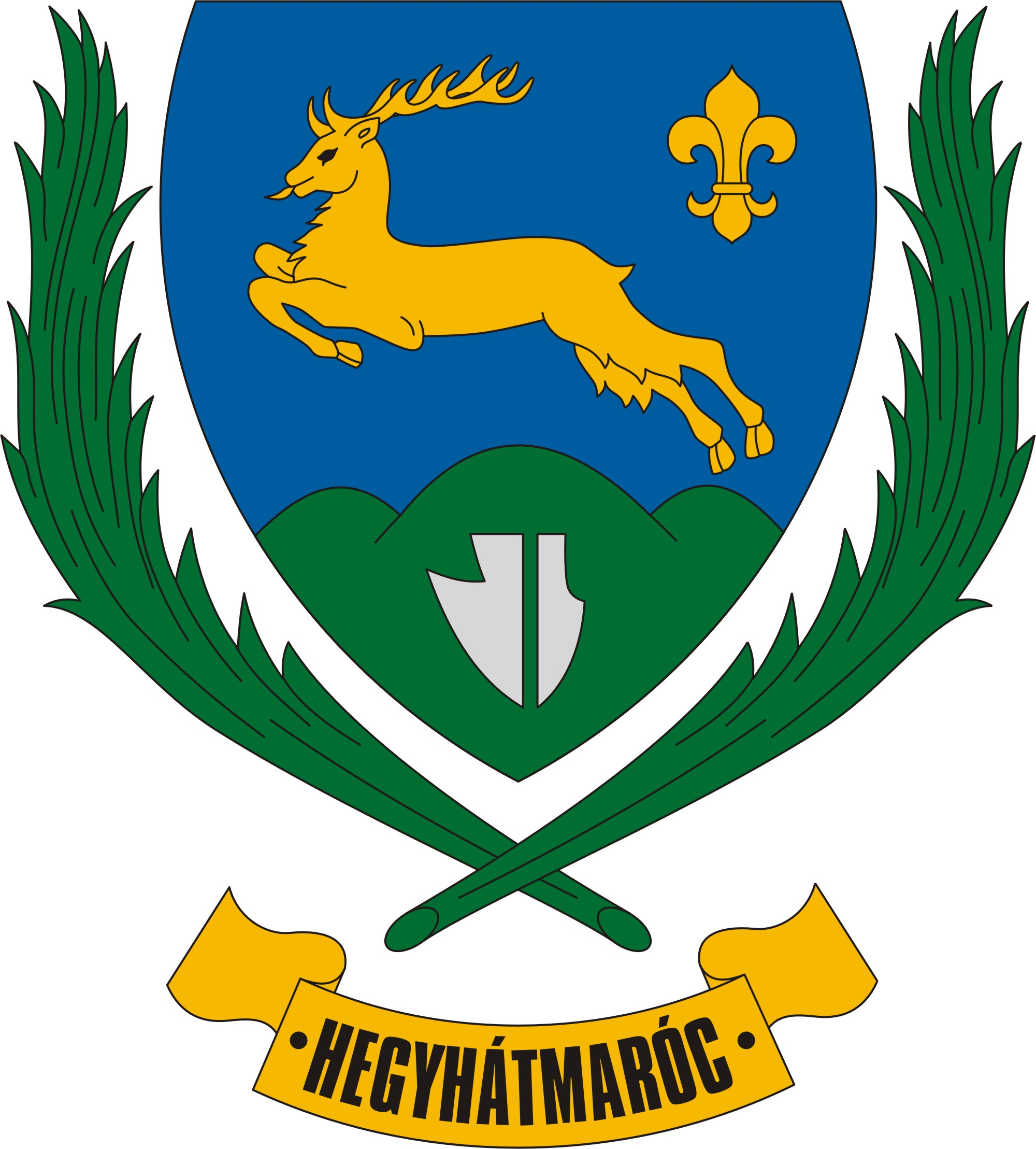 Coat of arms of Hegyhátmaróc, Hungary